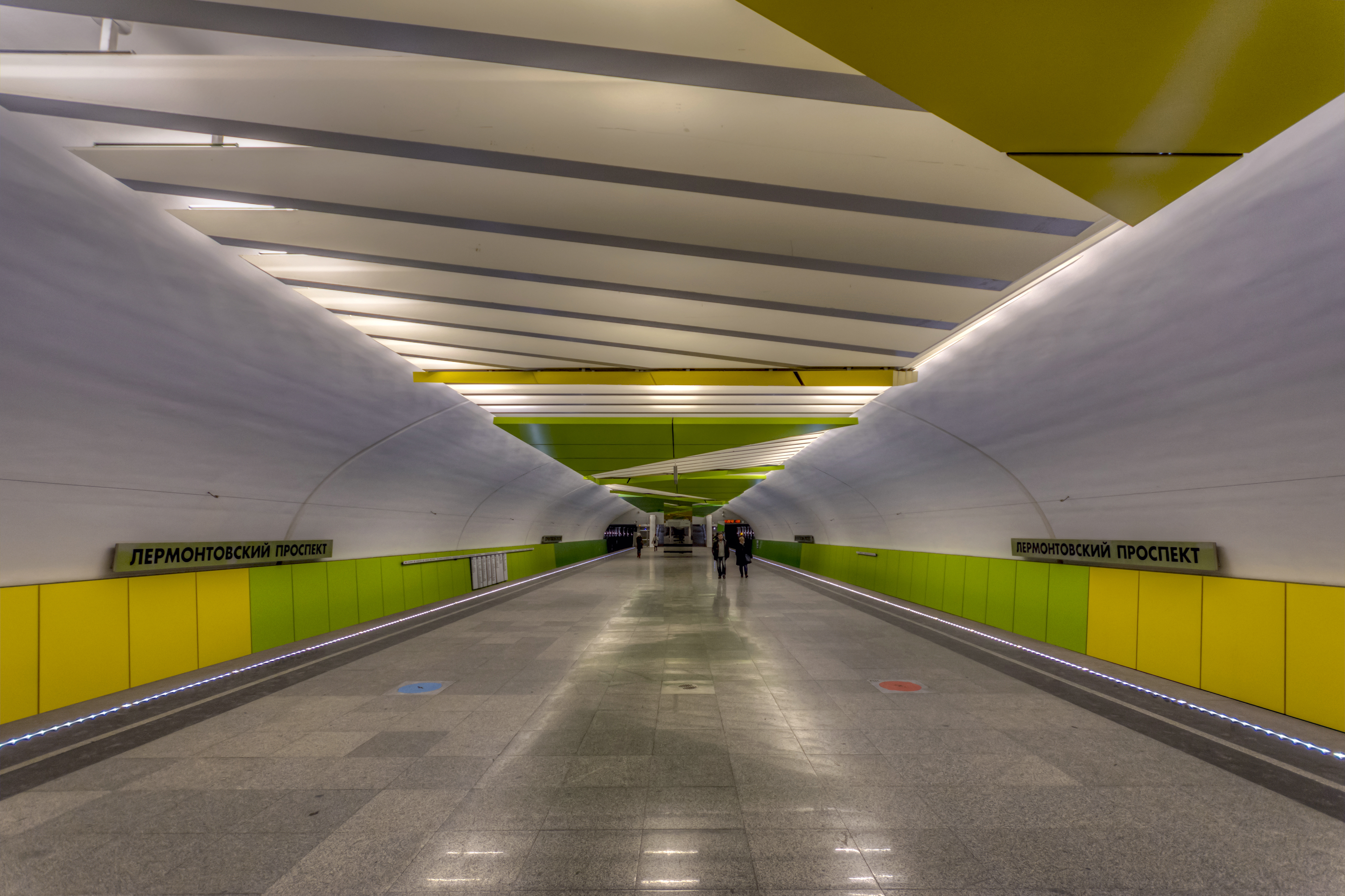 Lermontovsky Prospekt Station of Moscow Subway